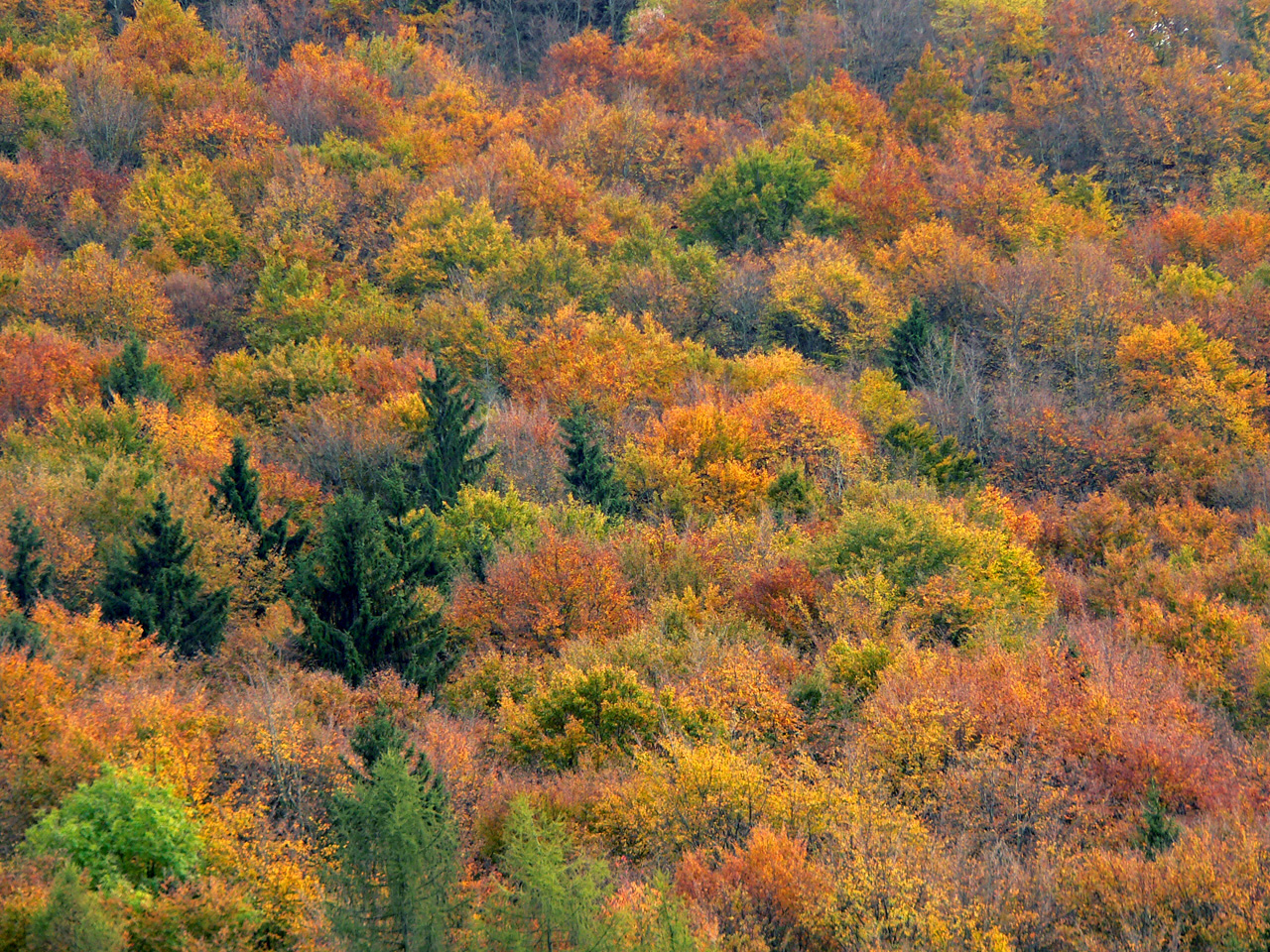 Taken in Cansiglio, Italian Prealps.